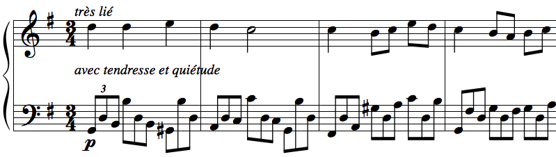 40 ans, the third movement from Grande sonate 'Les quatre âges', composed by Charles-Valentin Alkan